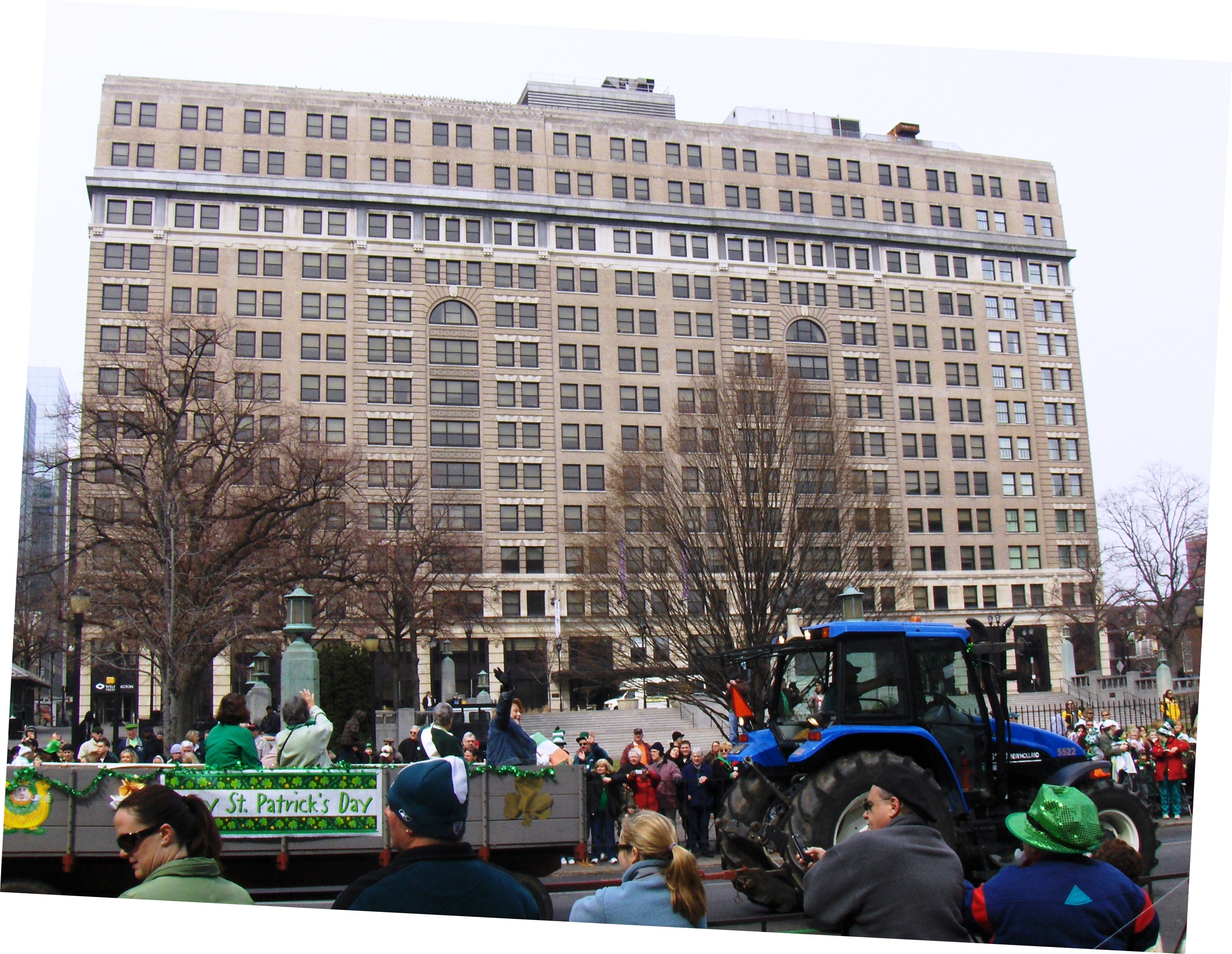 Dupont Building (or DuPont Building) in Wilmington, Delaware at 1007 N. Market Street. The photo was taken on 3/14/2009 during the St. Patrick's day parade. Picture taken from King Street in front of the Public Building with Rodney Square in between. The famous statue of Caesar Rodney by James E. Kelly is barely visible through the tree above the left corner of the New Holland Tractor. Built in 1907, the Dupont Building houses the Dupont corporate headquarters, a Wilmington Trust Branch, the Hotel du Pont, the Green Room French restaurant and the Dupont Theatre (formerly the Playhouse Theatre).